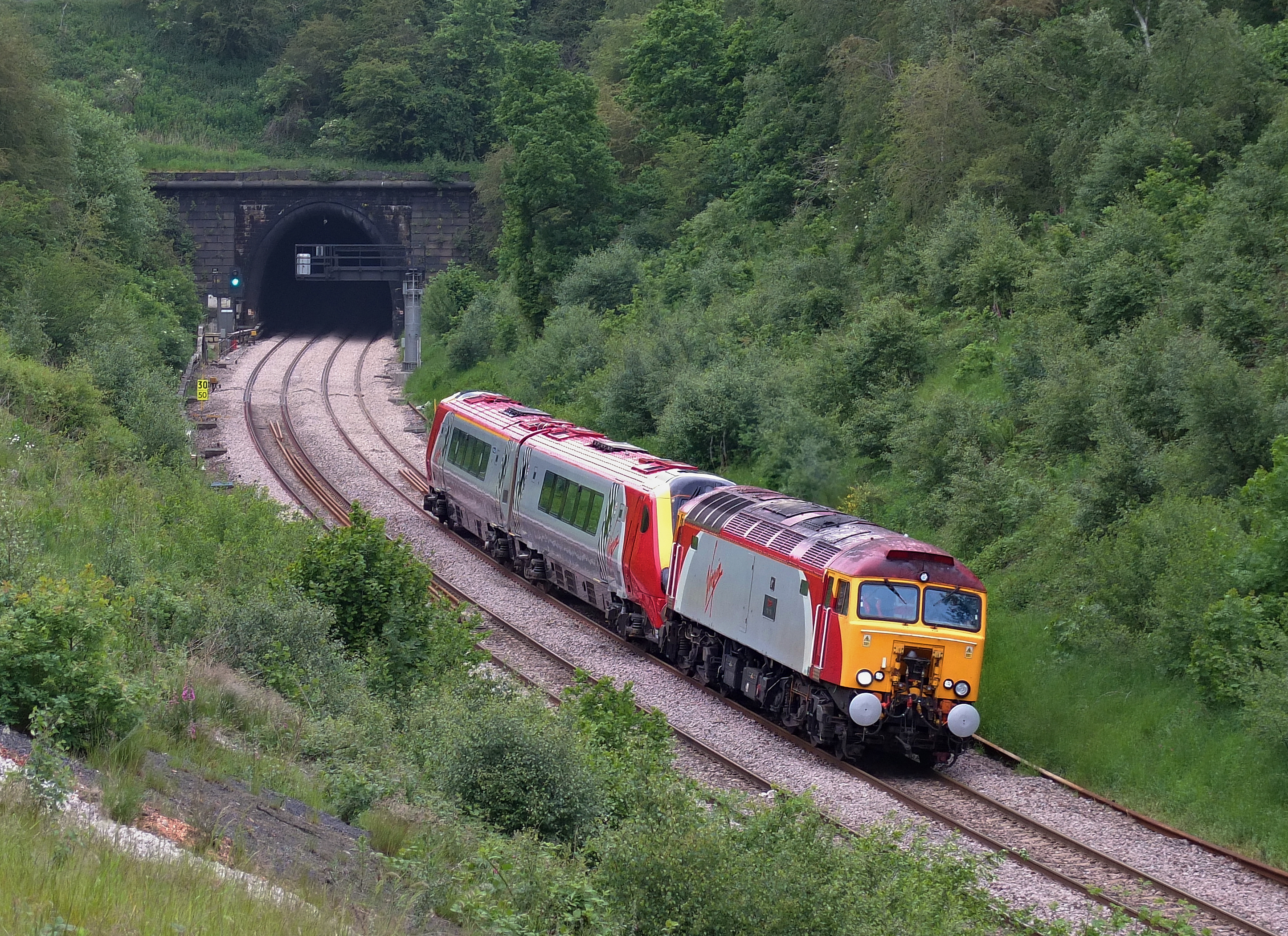 57308 "TinTin" passes Claycross working 5Z33 York NRM - Barton under Needwood (Central Rivers) . No doubt TinTin will be back on the NWC Drags tommorrow after her holiday at York Railfest. Thanks to Ben Wheeler for the gen .